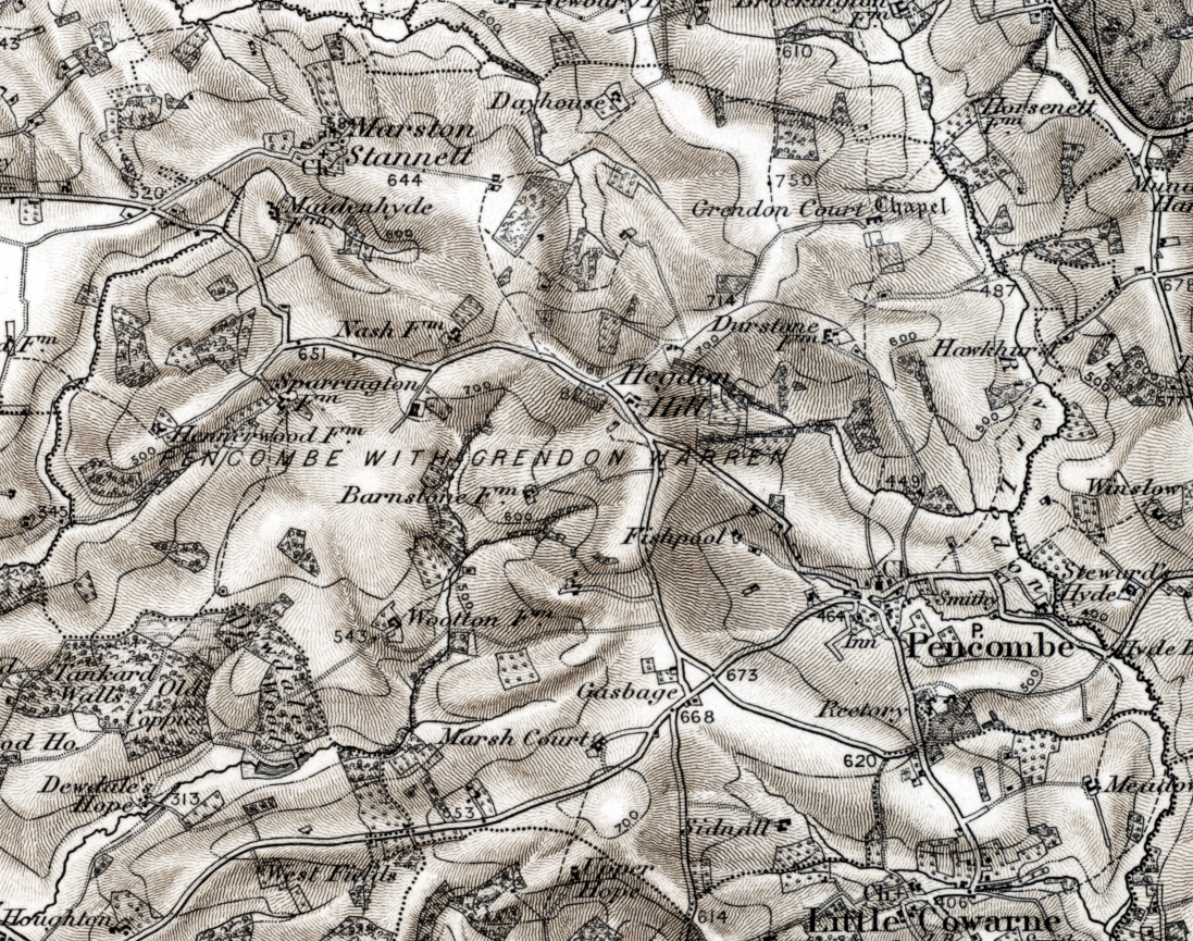 1897 Ordnance Survey map of Pencombe with Grendon Warren in Herefordshire, England. Reproduced with the permission of the National Library of Scotland.[1]